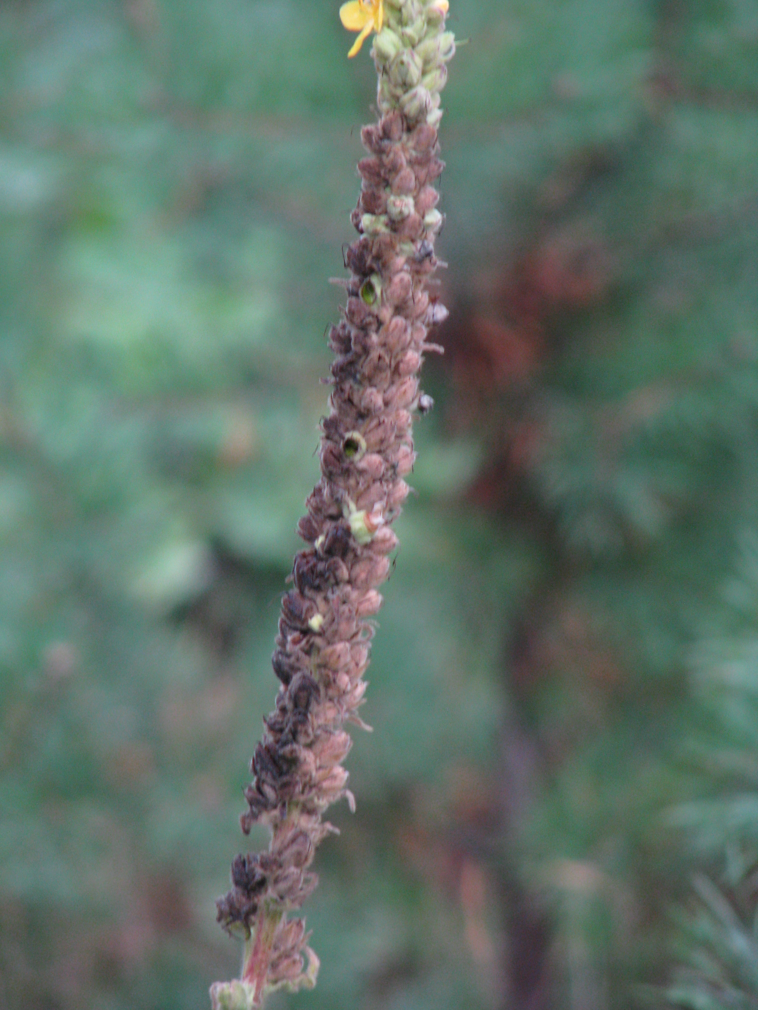 Verbascum thapsus. Savinsky district, Ivanovo Oblast, Russia